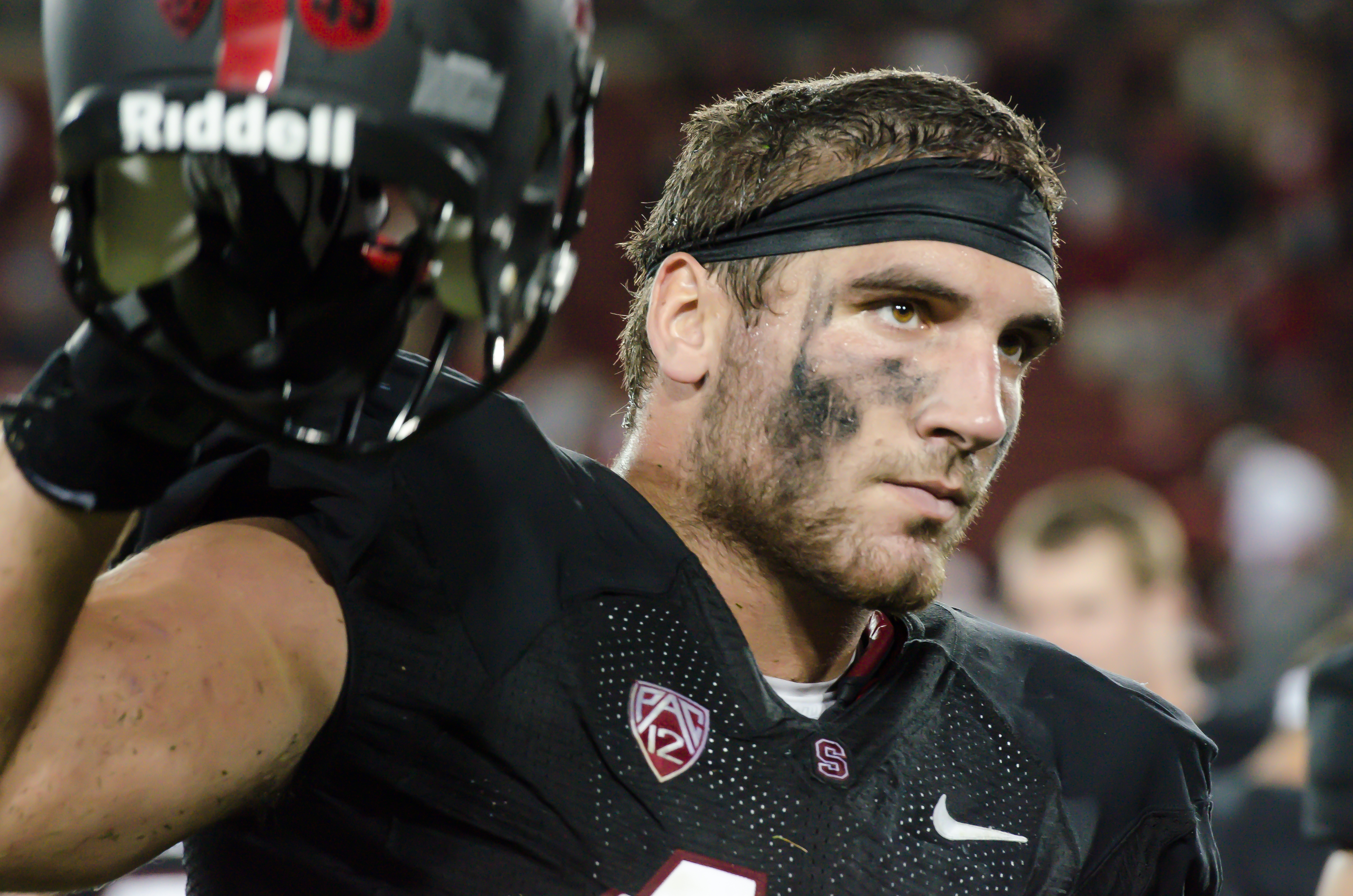 Ben Gardner after the Stanford victory over Washington at home